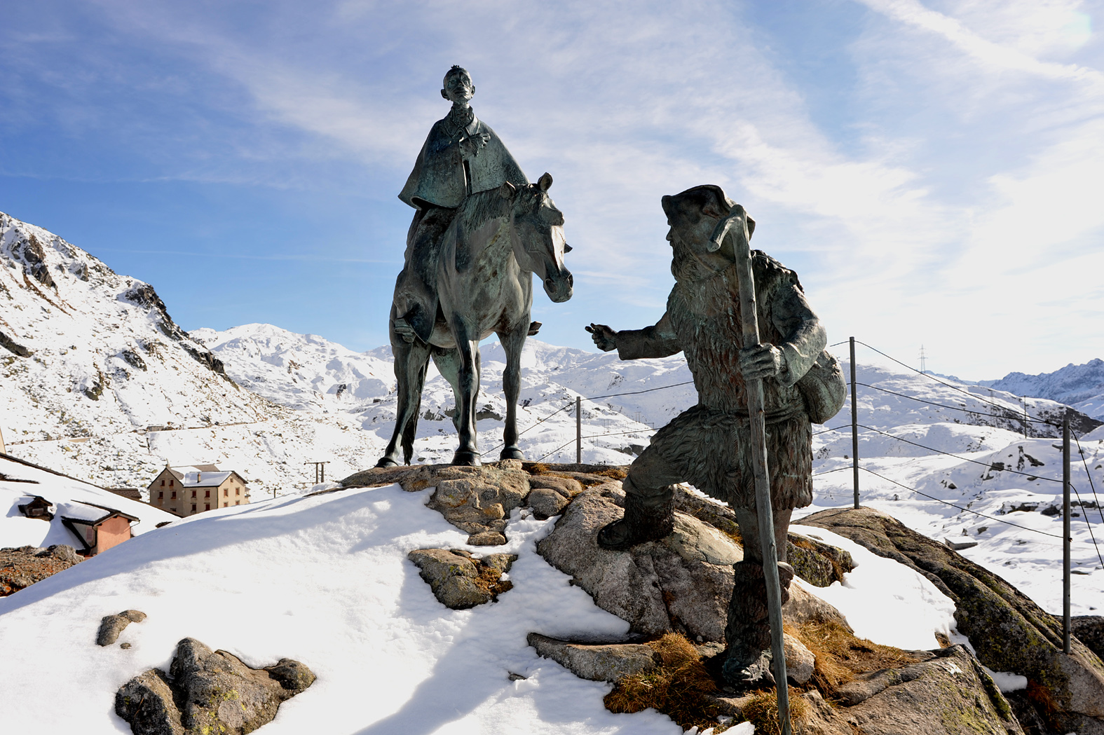 Equestrian statue of Alexander Vasilyevich Suvorov on the Gotthard pass; Ticino, Switzerland. The monument is a work by Dmitry N. Tugarinov of 1999.